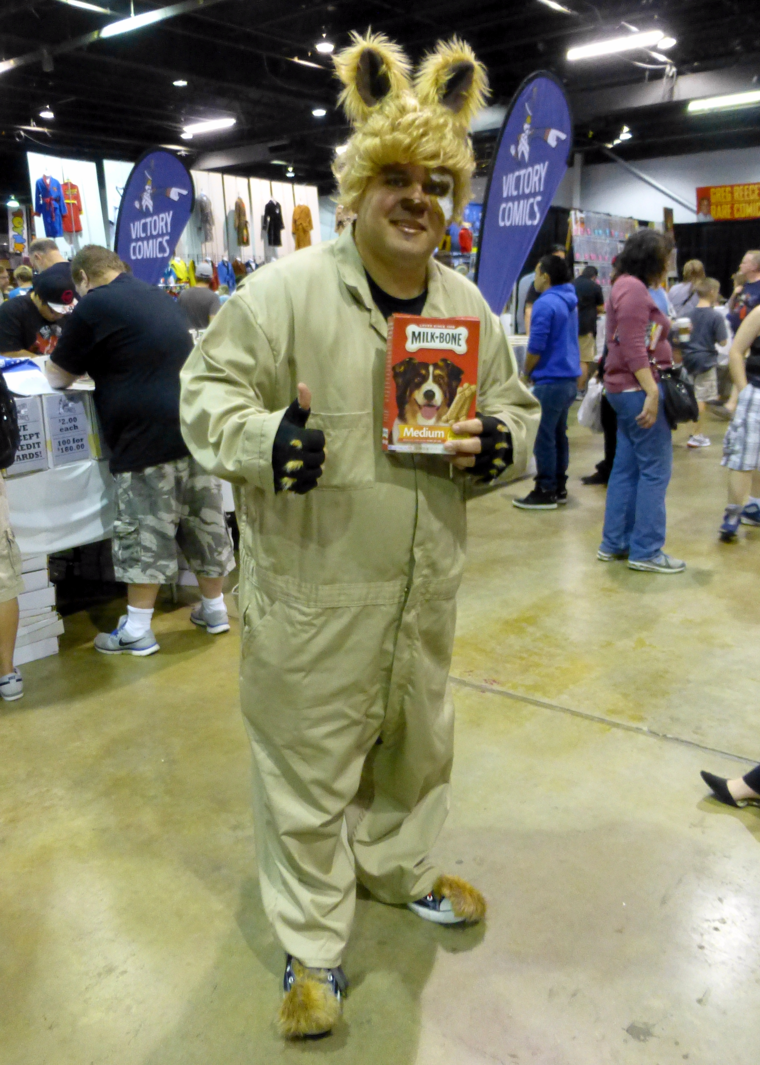 Barf, he's a mog. Half man/half dog. He's his own best friend. Cosplay at the 2015 Wizard World Chicago.